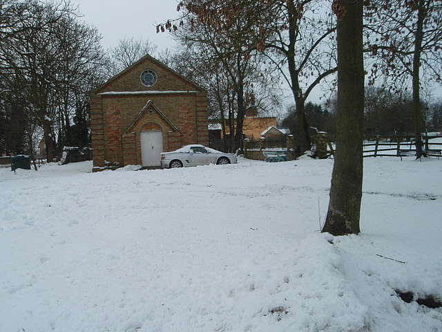 Winwick village hall A covering of snow to about 4" lies all around this part of west Cambridgeshir.